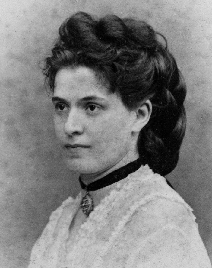 Maria Josepha von der Decken ne Stahmer de Cordova